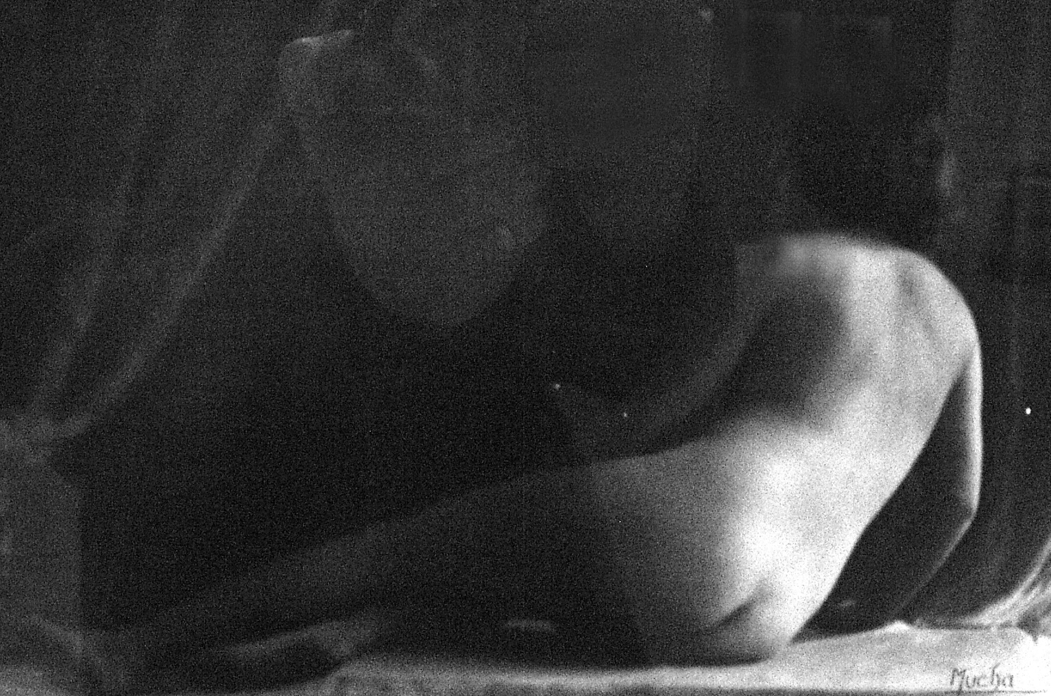 Alfons Mucha, akt, 1895